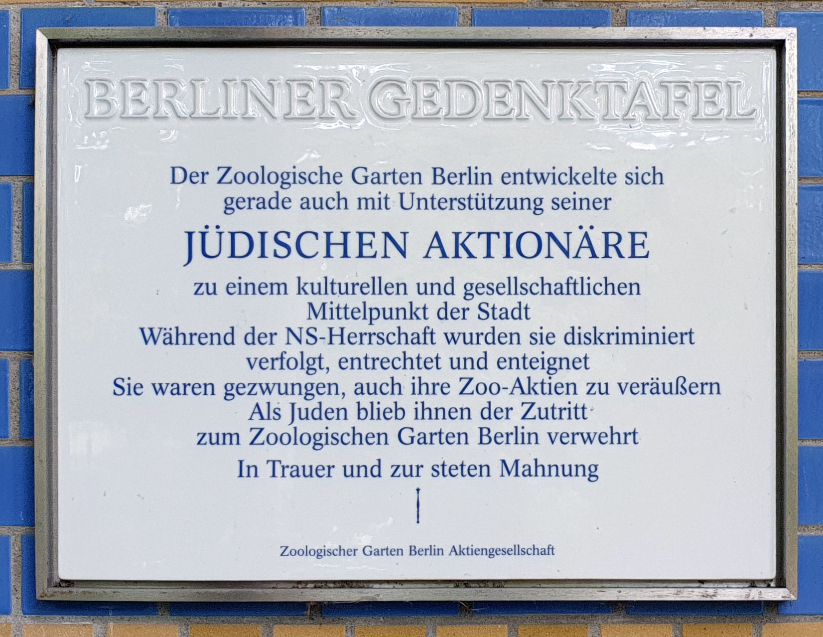 Berlin memorial plaque, Jüdische Aktionäre, Hardenbergplatz 8, Berlin-Tiergarten, Germany